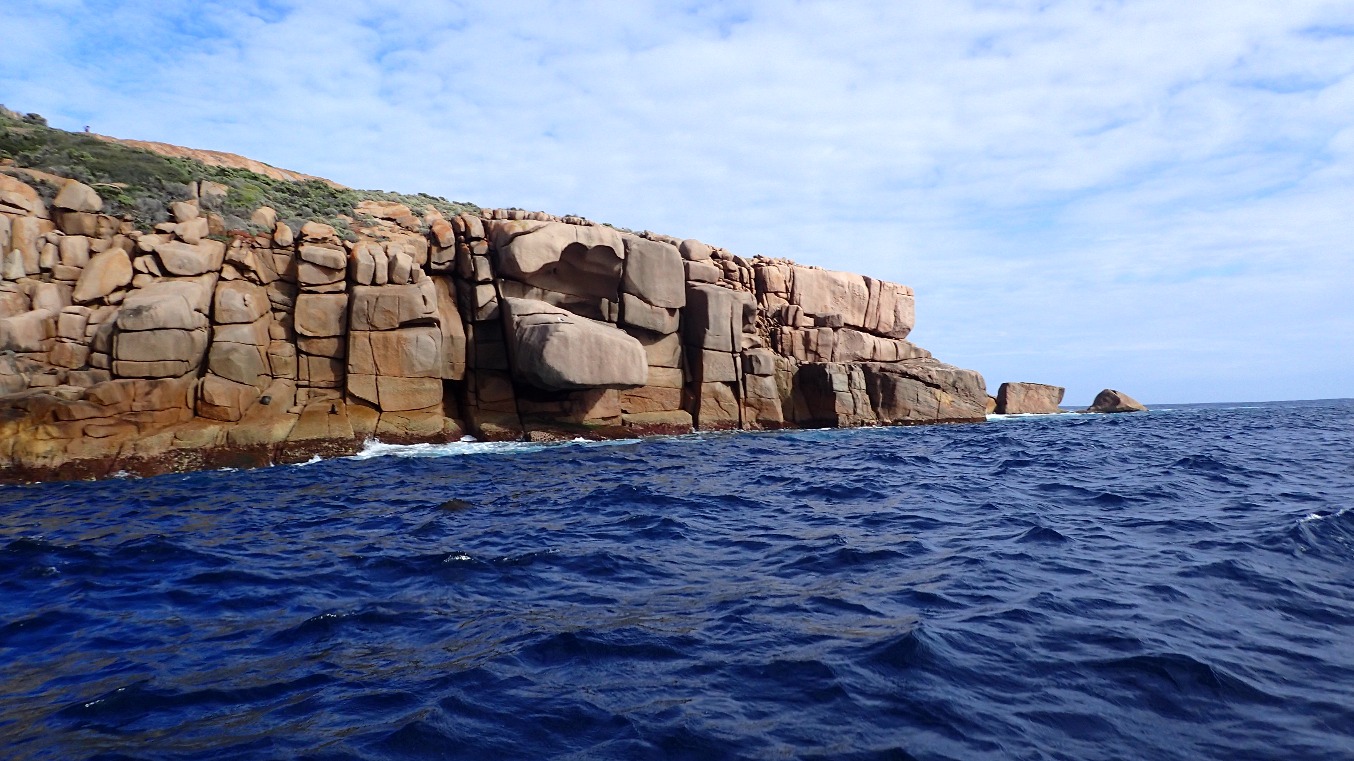 Rock formations along northern anchorage of Pearson Island